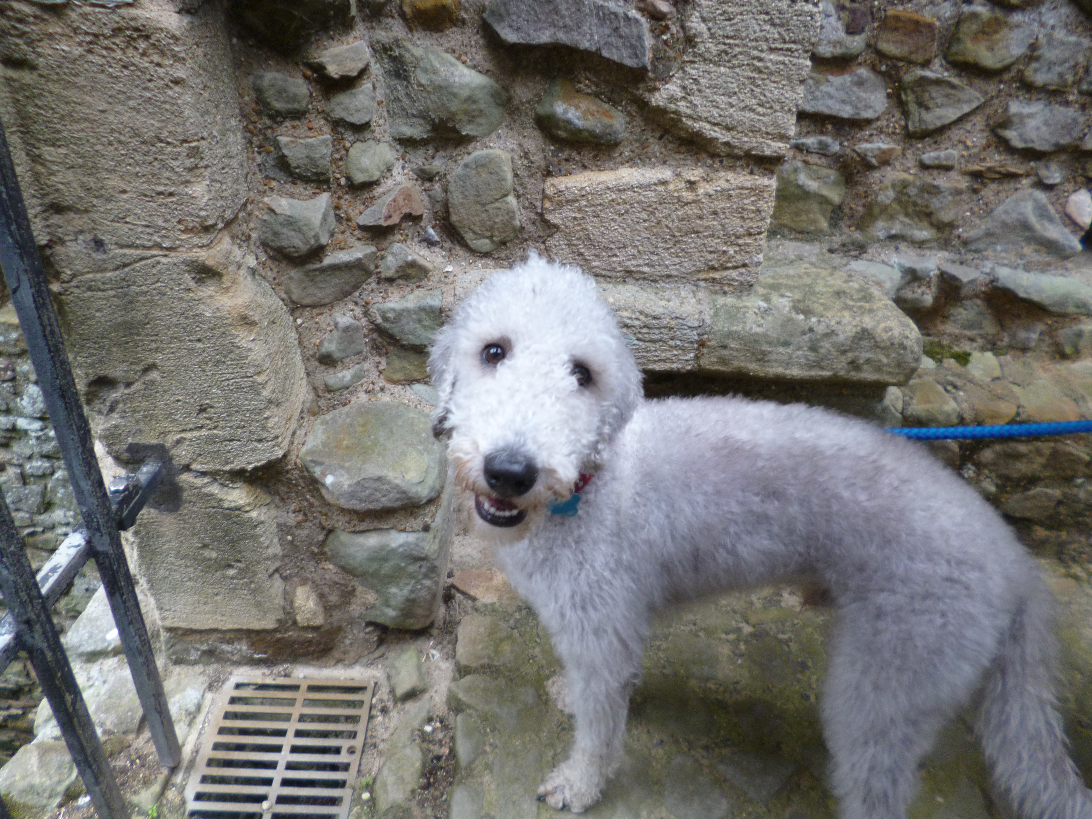 Dog visiting castle.